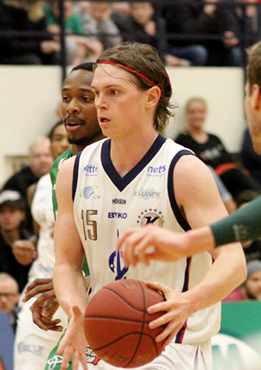 Stefan Bonneau (left), Valur Orri Valsson (middle #15) and Ágúst Orrason (right) during a game between Keflavík and Njarðvík in the Úrvalsdeild karla on 5 February 2015.